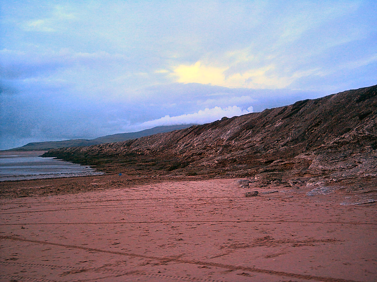 The more gradual southern side of Askam pier. Picture facing away from the village, taken on the beach near the start of the pier.